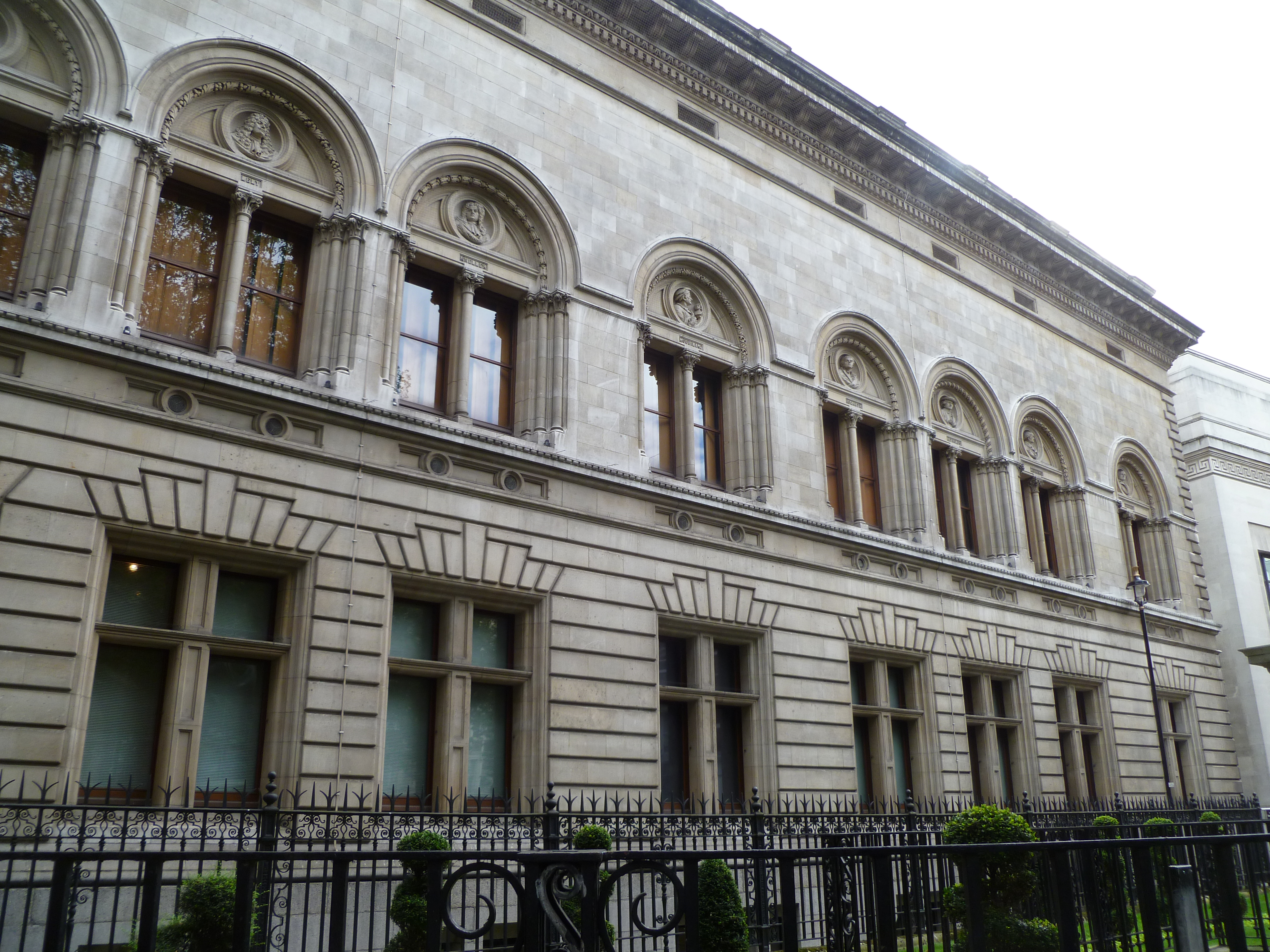 photograph of National Portrait Gallery showing north front facing Charing Cross Road